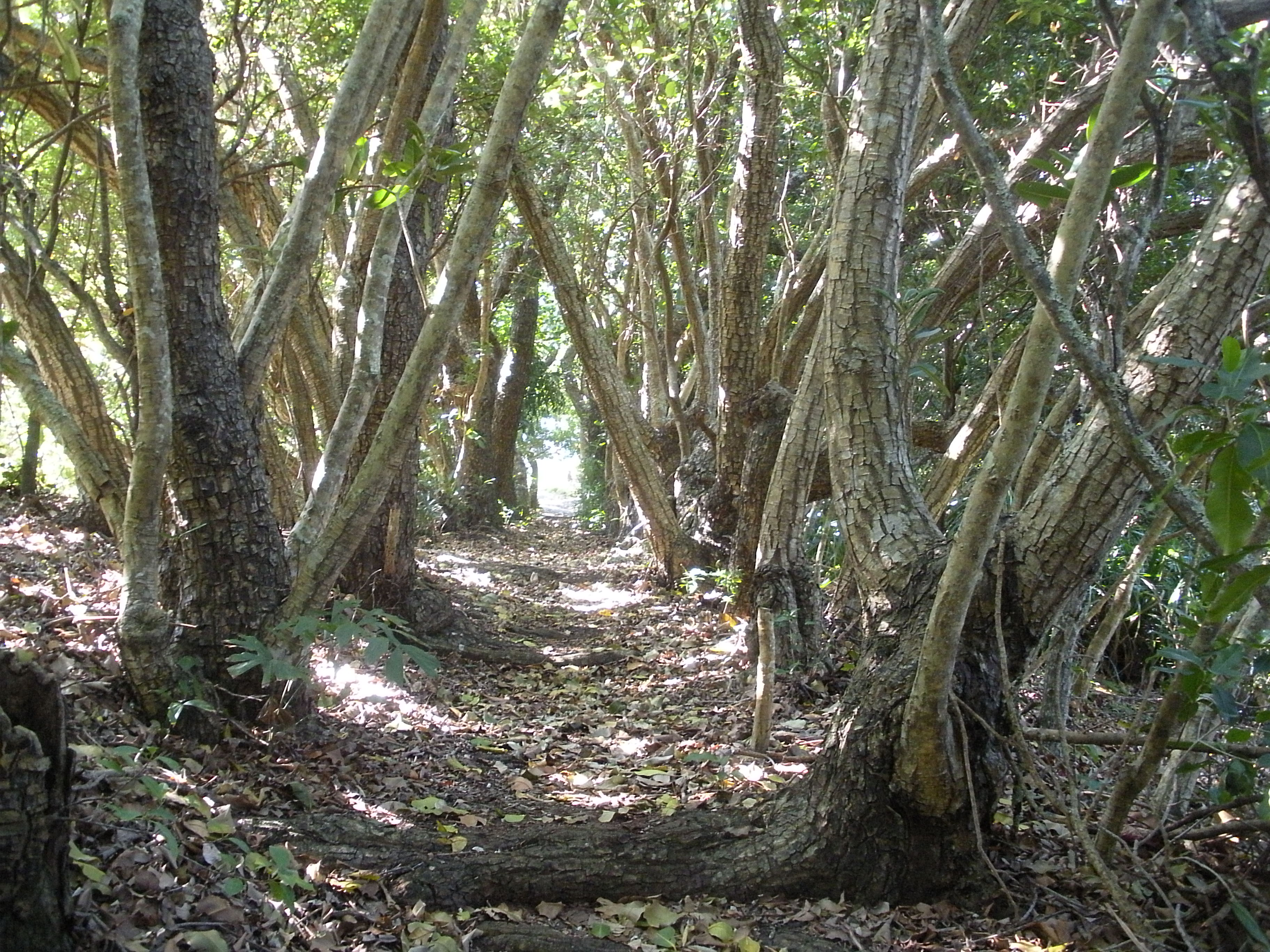 Calophyllum inophyllum in Japan Bonin Islands Hahajima Island